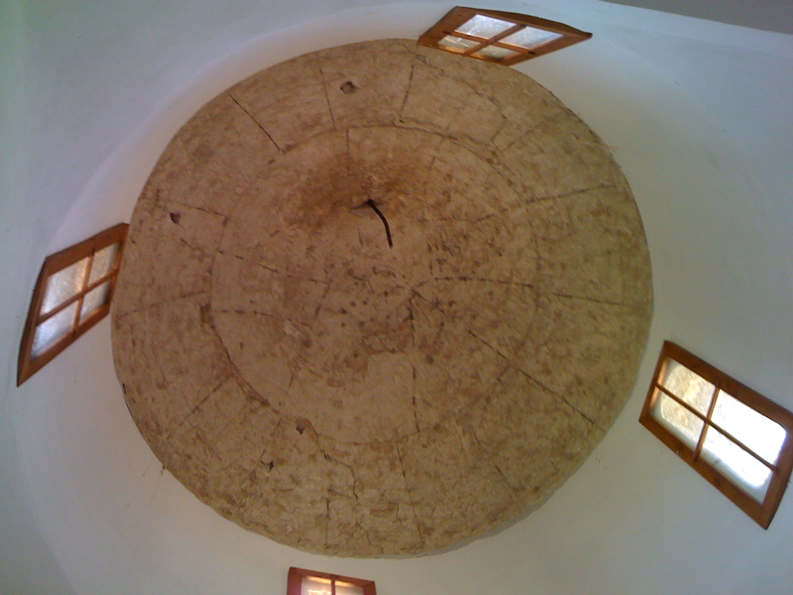 Present state of the dome of the church of St. Evfimianos in Lysi, Cyprus with the frescoes removed